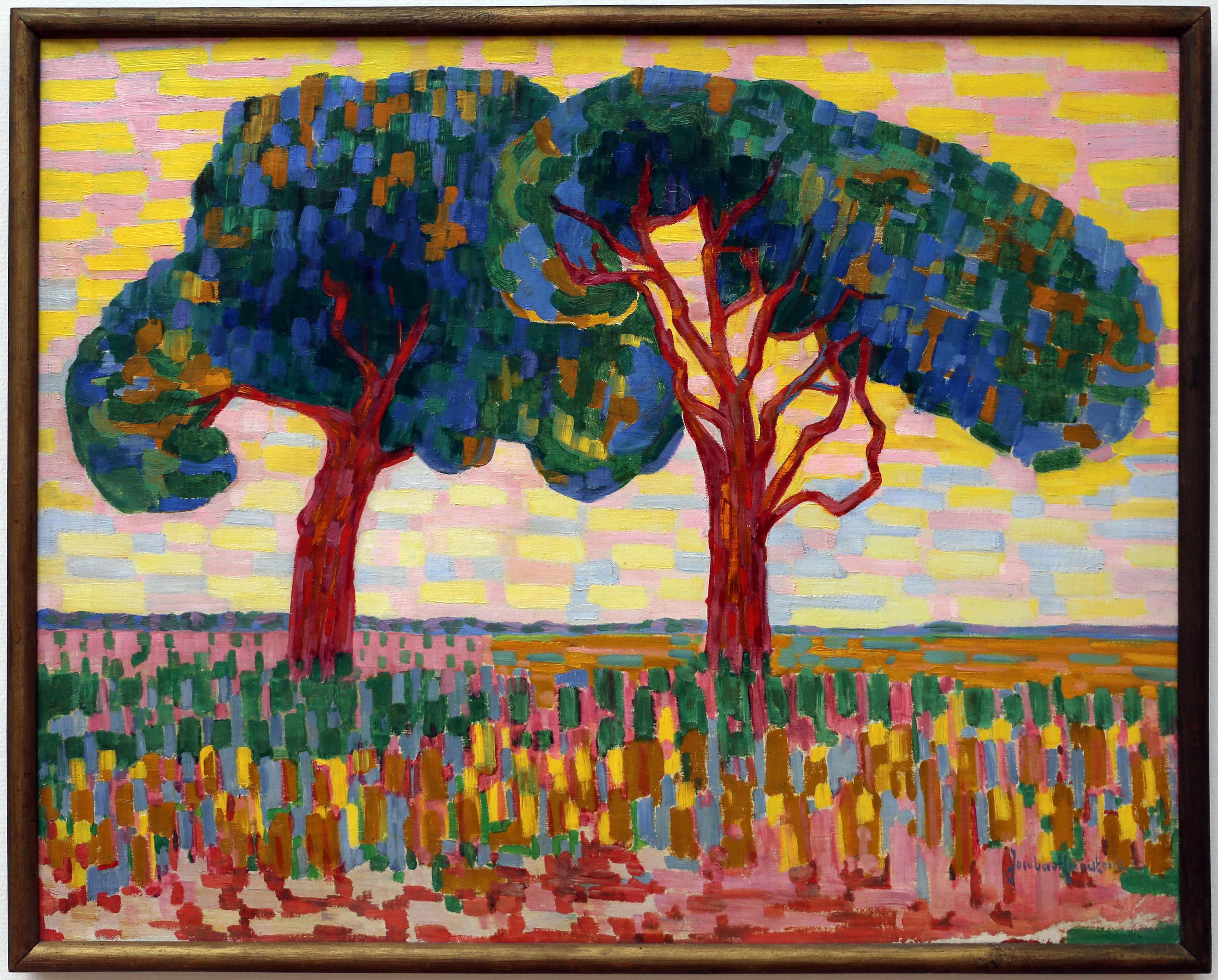 Paintings in the Gemeentemuseum Den Haag